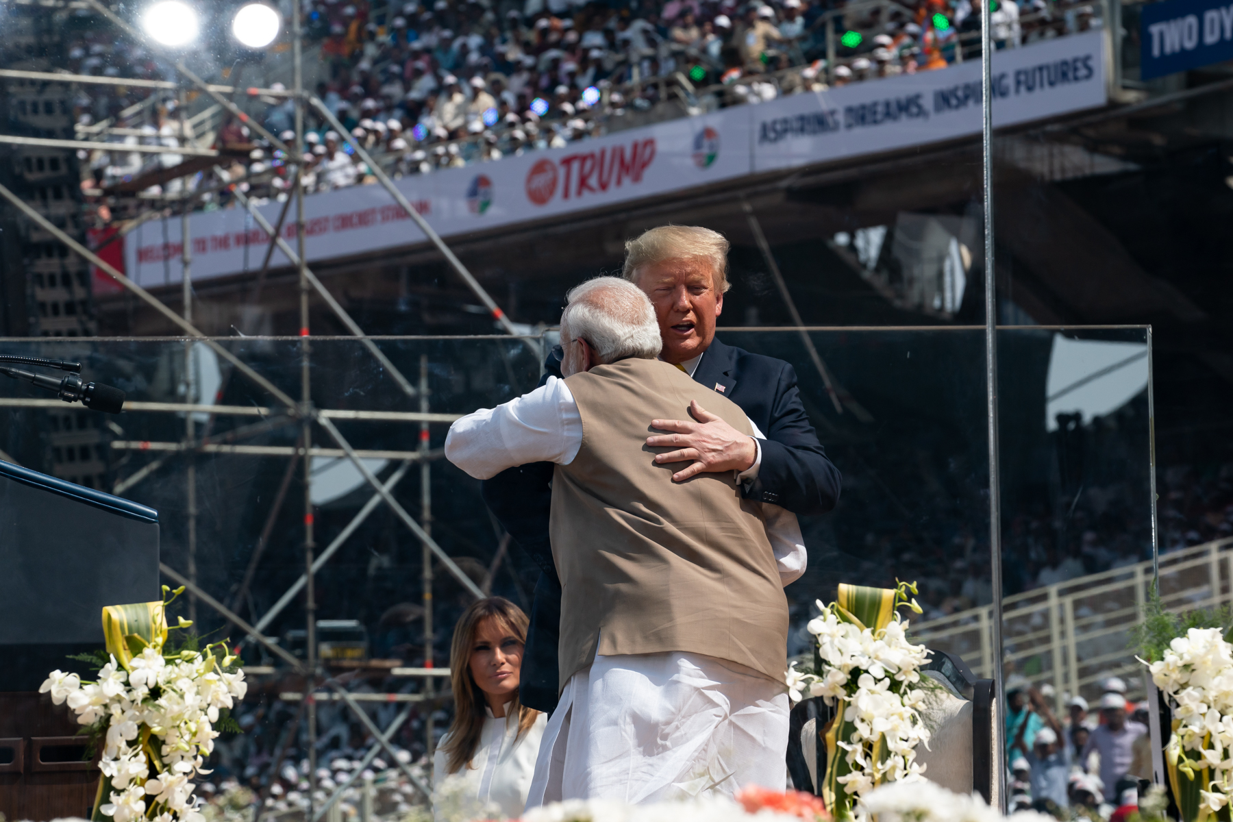 As First Lady Melania Trump looks on, President Donald J. Trump embraces Indian Prime Minister Narendra Modi during the Namaste Trump Rally Monday, Feb. 24, 2020, at Motera Stadium in Ahmedabad, India. (Official White House Photo by Andrea Hanks)